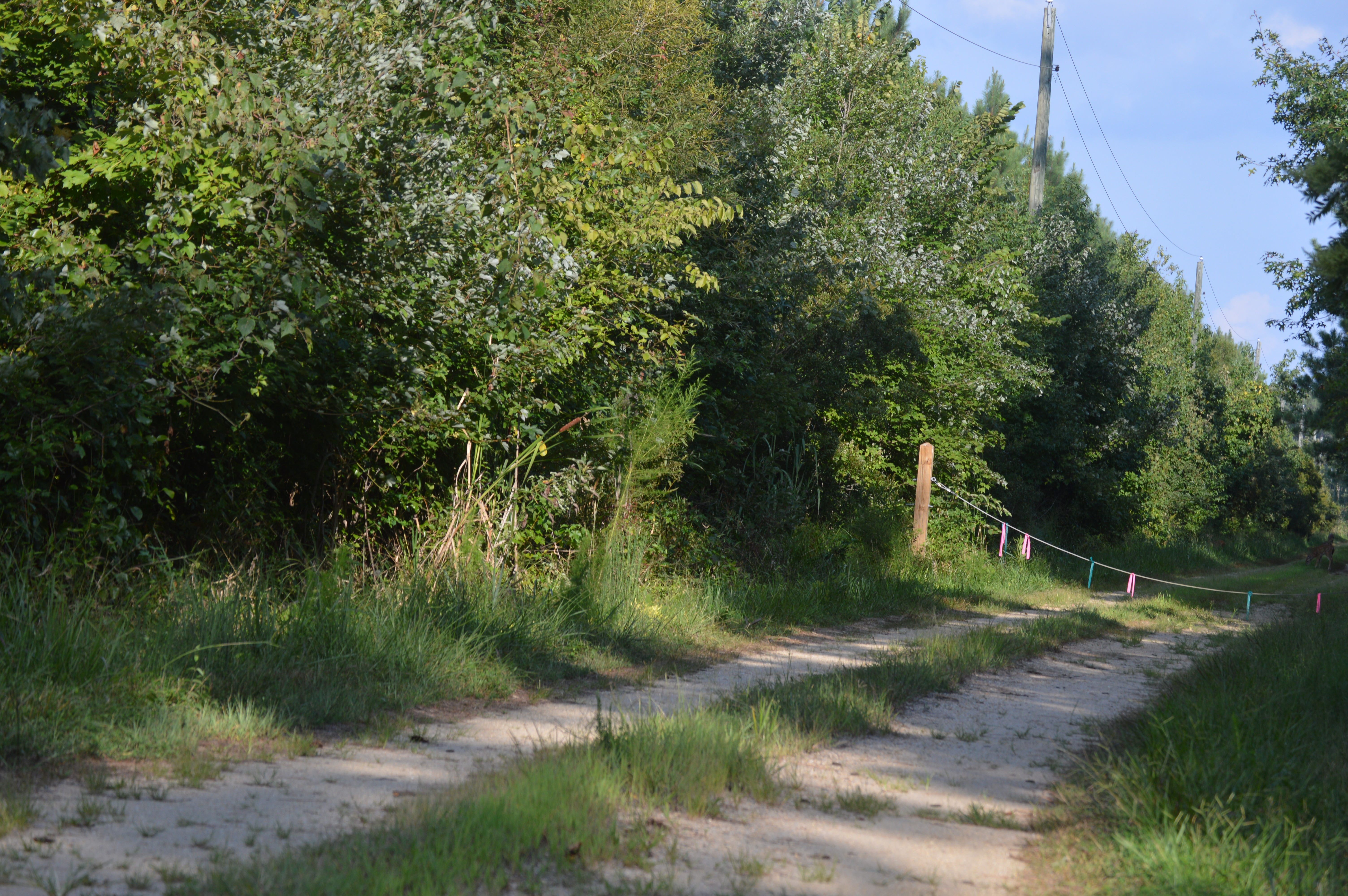 Entrance to the Hurstville estate, located on Balls Neck Road southeast of Wicomico Church in Northumberland County, Virginia, United States. The plantation is listed on the National Register of Historic Places.